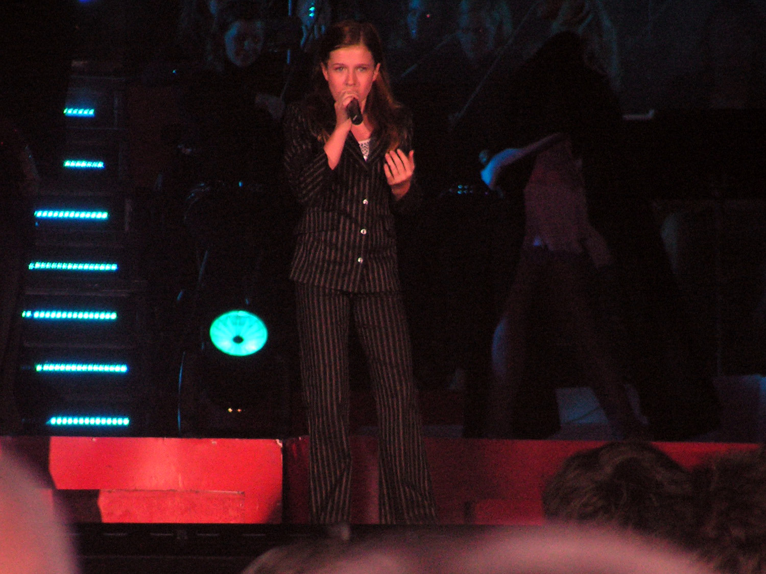 The swedish singer Amy Diamond.